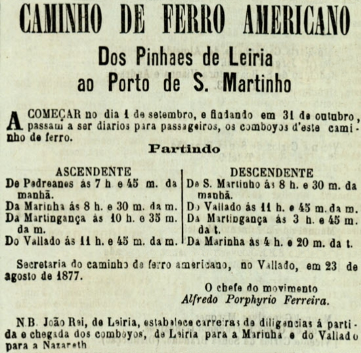 Timetable of the Caminho de Ferro Americano de São Martinho do Porto (São Martinho horse-drawn tramway), that transported passengers and cargo in the municipalities of Leiria and Alcobaça, in Portugal. This image was published on the Diario Illustrado newspaper No. 1633, of 26th August 1877, and scanned by the Biblioteca Nacional de Portugal.